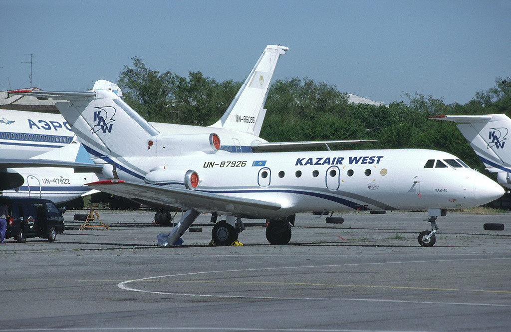 Kazair West Yakovlev Yak-40K Reg.: UN-87926 MSN: 9741755 Almaty (Alma Ata) (ALA / UAAA) Kazakhstan - June 2001 First registered in 12.77 to AFL's Kazakh division and acquired by Kazair West a year before this photo, having served Zhetysu Avia and Kazakstan Airlines previously. In 14-seat VIP configuration and still current